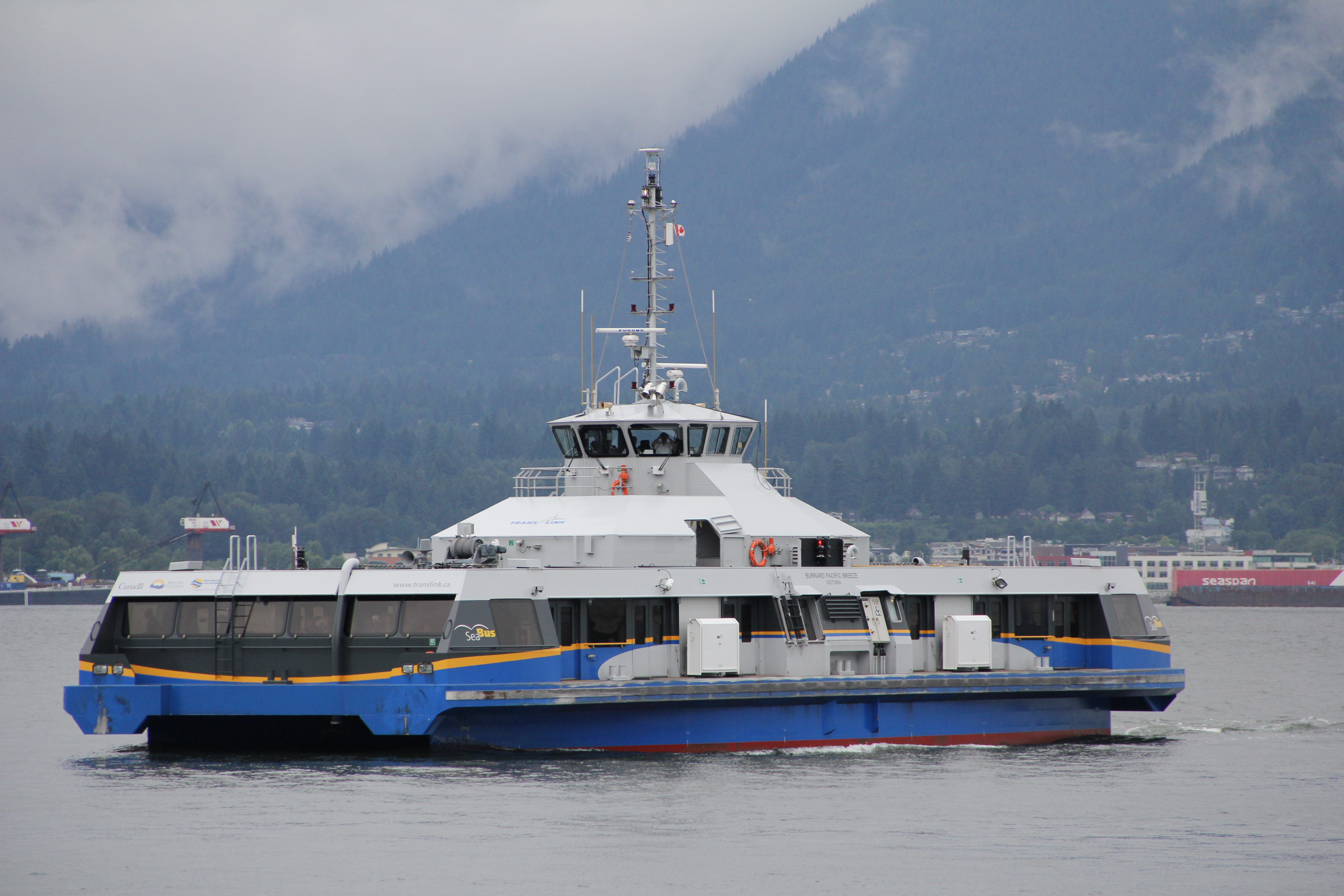 "Burrard Pacific Breeze" SeaBus crossing Burrard Inlet.